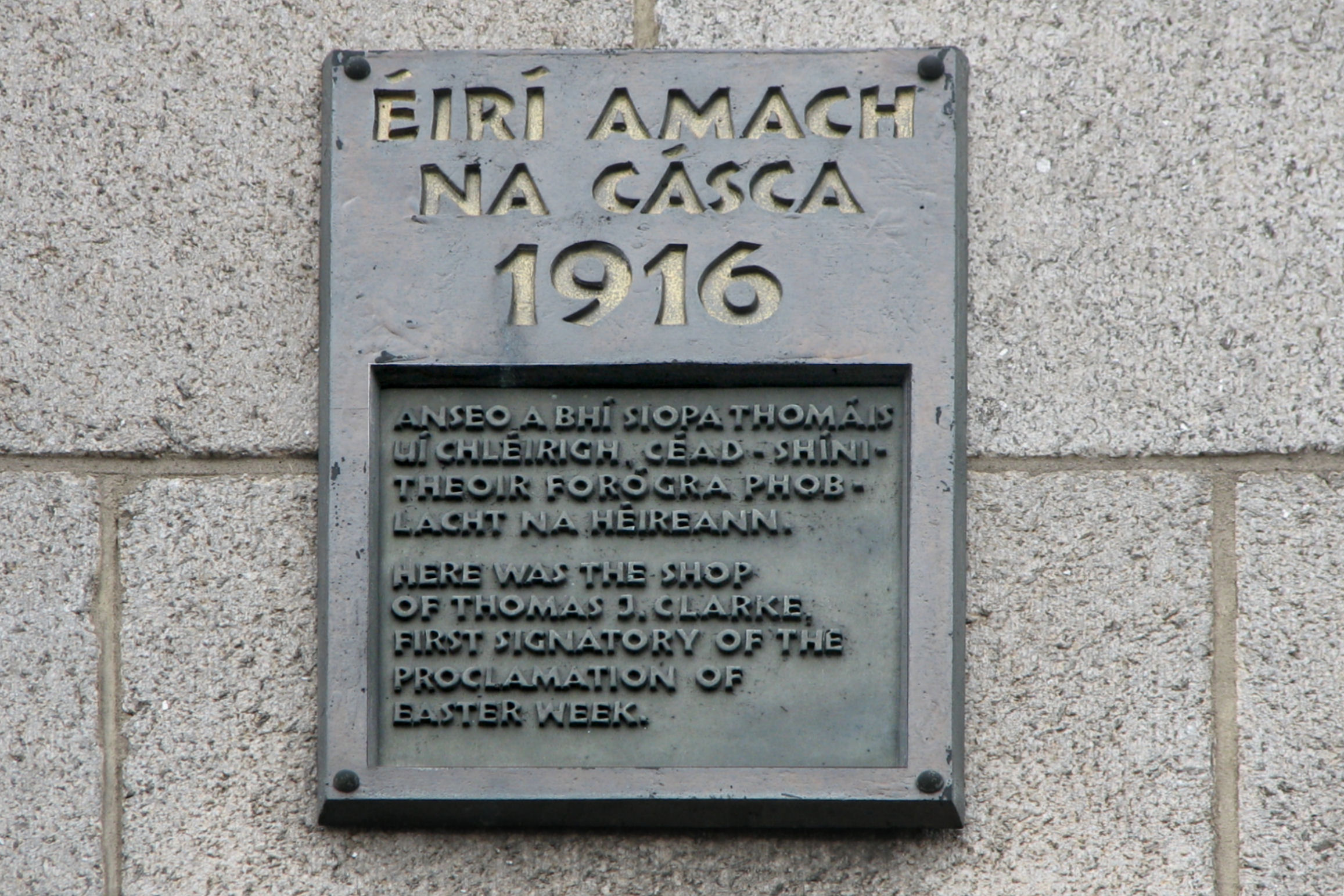 Tom Clarke 1916 commemorative plaque at the junction of Parnell Street and O’Connell Street, Dublin.